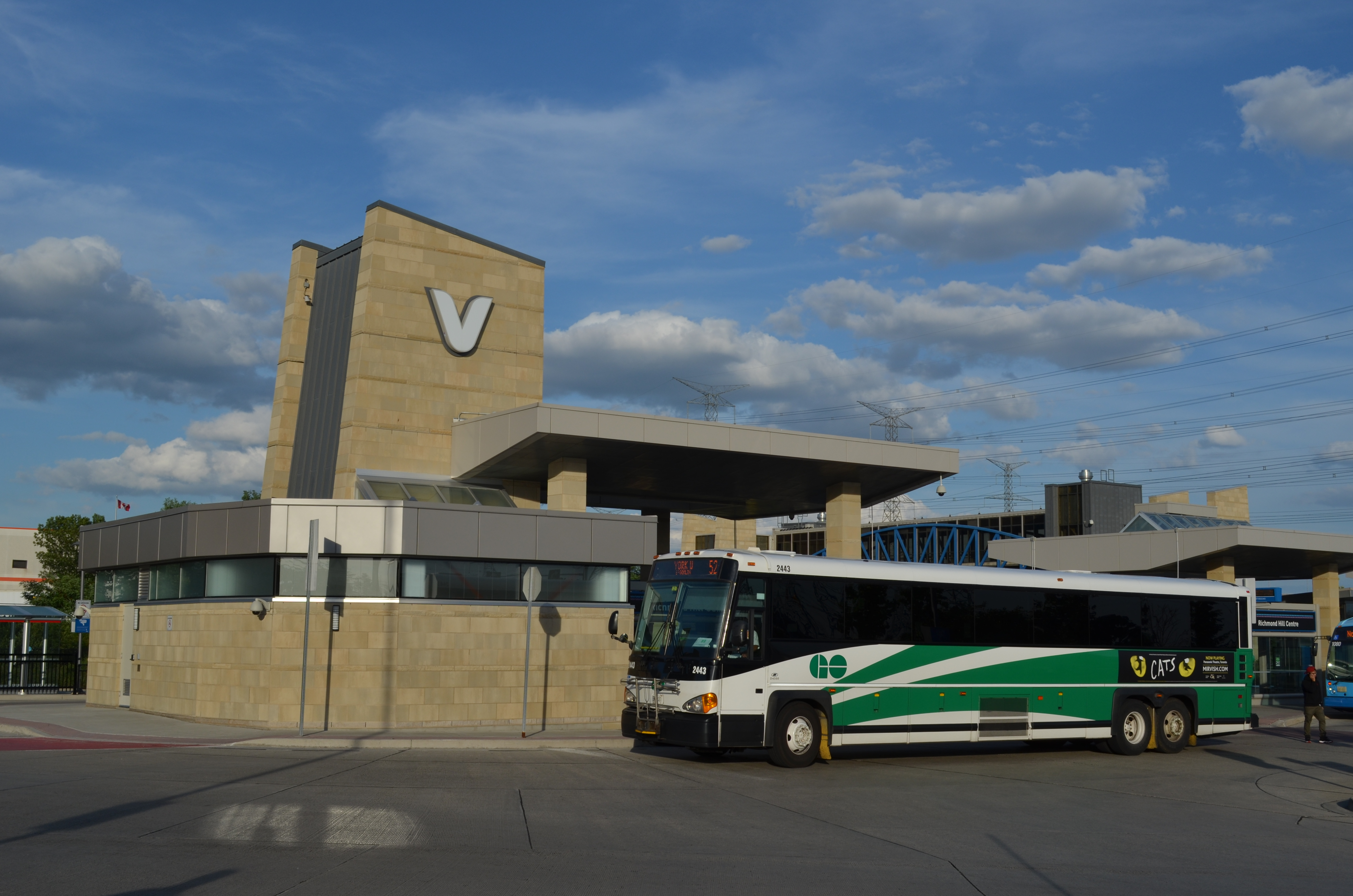 Richmond Hill Centre Terminal